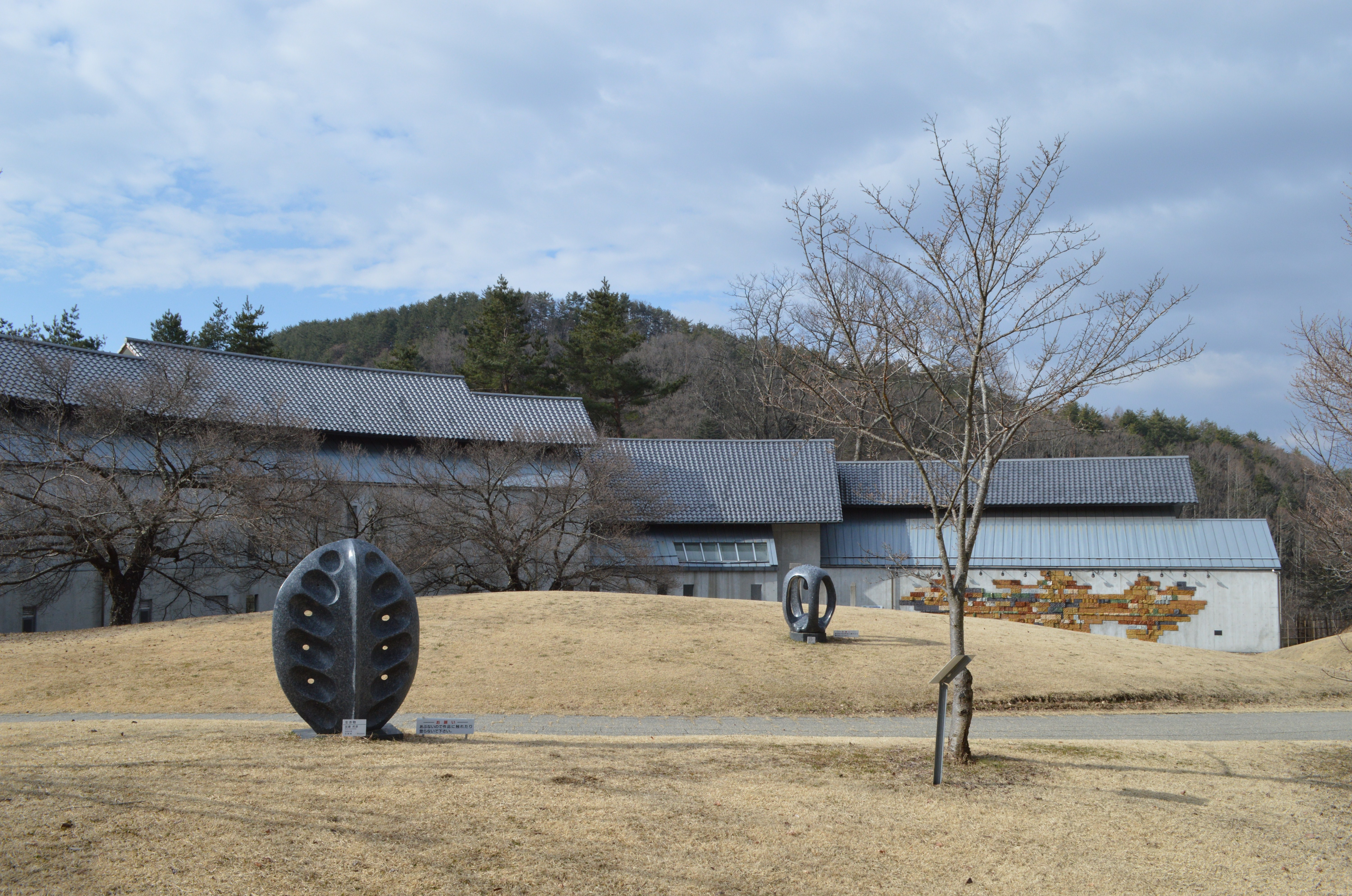 Shinshu Takato Museum of Art is a art museum in Takato machi, Ina city, Nagano prefecture, Japan.